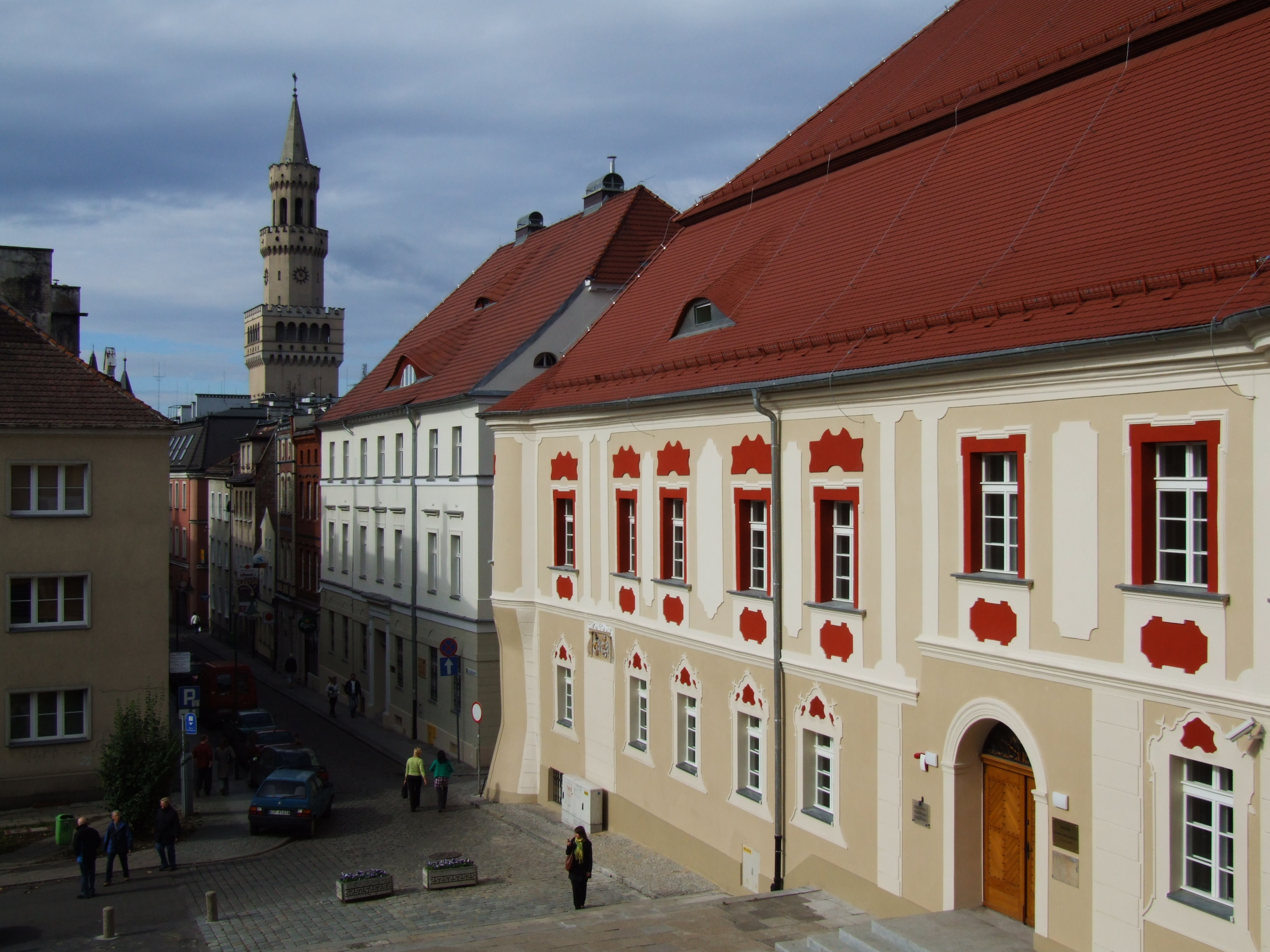 Opole (Oppeln) - św. Wojciech (Adalbert of Prague) street and Museum of Opole Silesia